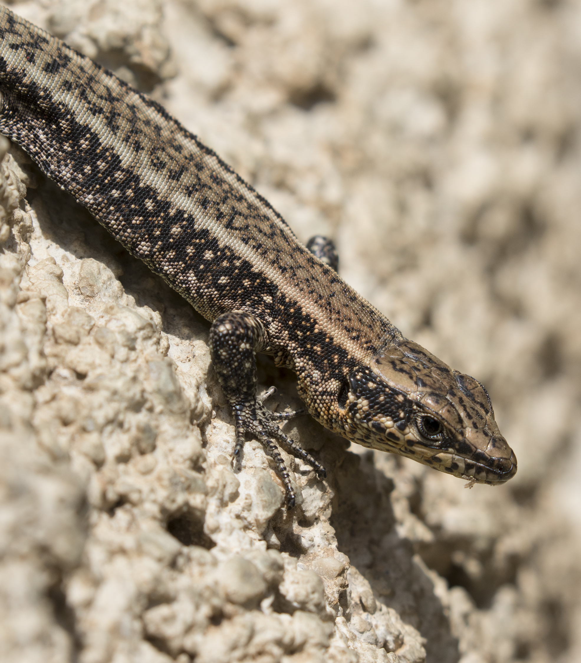 Pelasgian Rock Lizard (Anatololacerta pelasgiana). Yeniköy - Saimbeyli, Adana - Turkey.